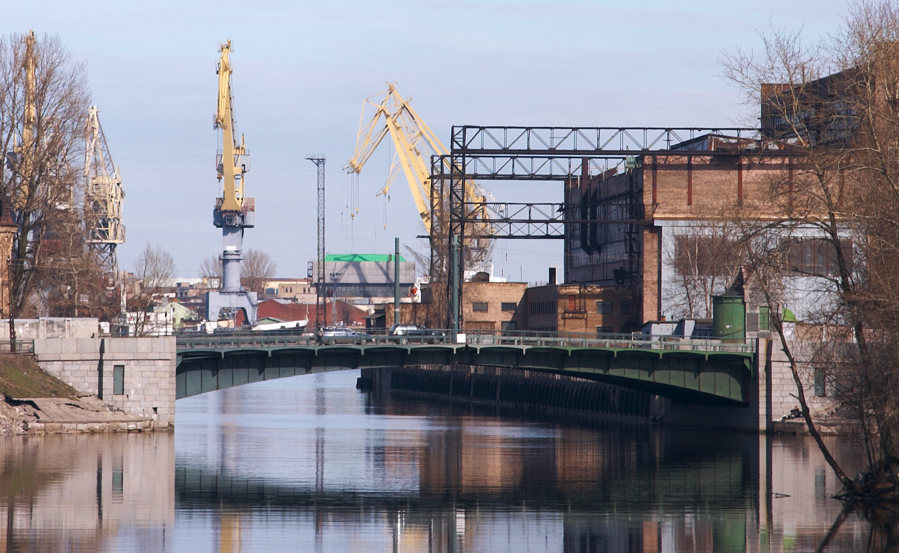 Ekateringofsky Bridge in Saint Petersburg